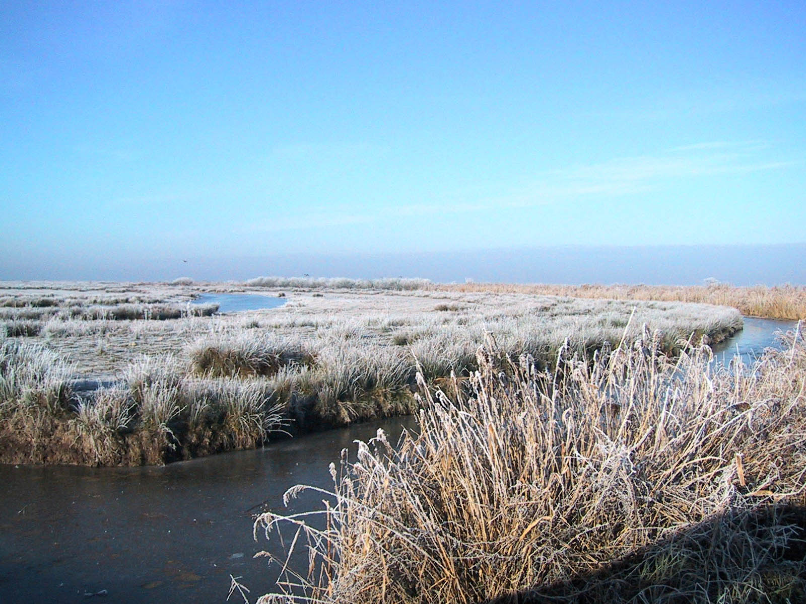 Frosted marshes near Brouage. Charente-maritime (17), France